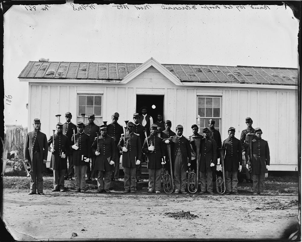 107th U.S. Colored Infantry Band at Fort Corcoran. Arlington, Virginia, November 1865. Library of Congress Prints and Photographs Division. Reproduction Number: LC-B8171-7861 (4-6)